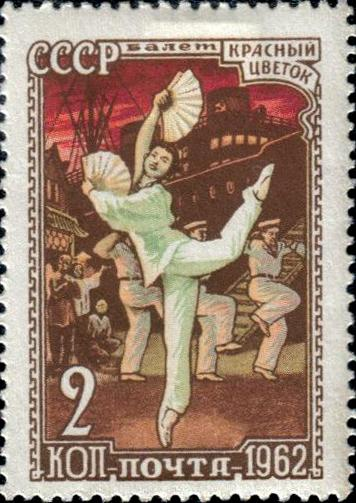 Stamps of the USSR "The Soviet ballet", 1962